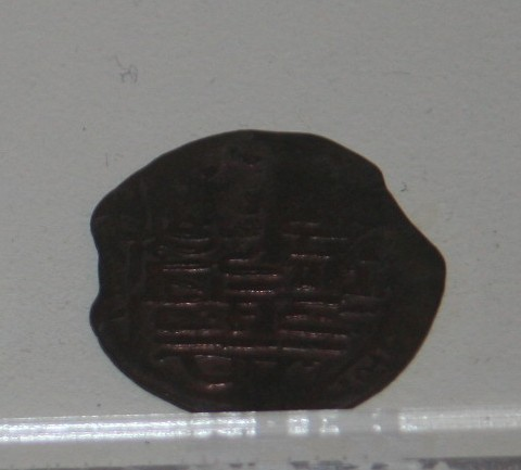 Copper dirham of Qizil Arslan